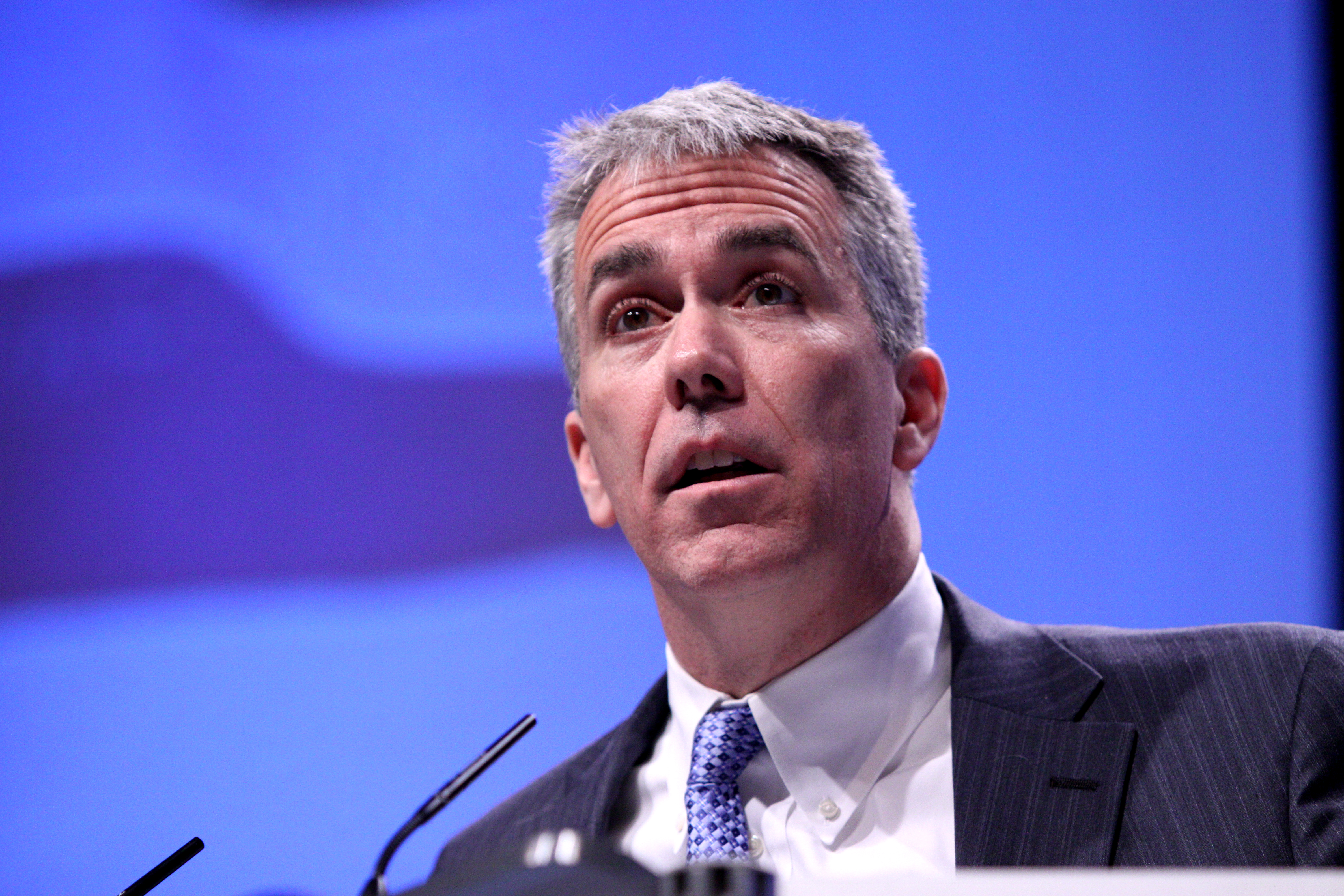 Congressman Joe Walsh of Illinois speaking at CPAC 2011 in Washington, D.C.